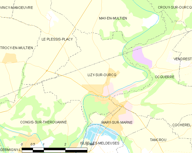 Map of French municipality Lizy-sur-Ourcq